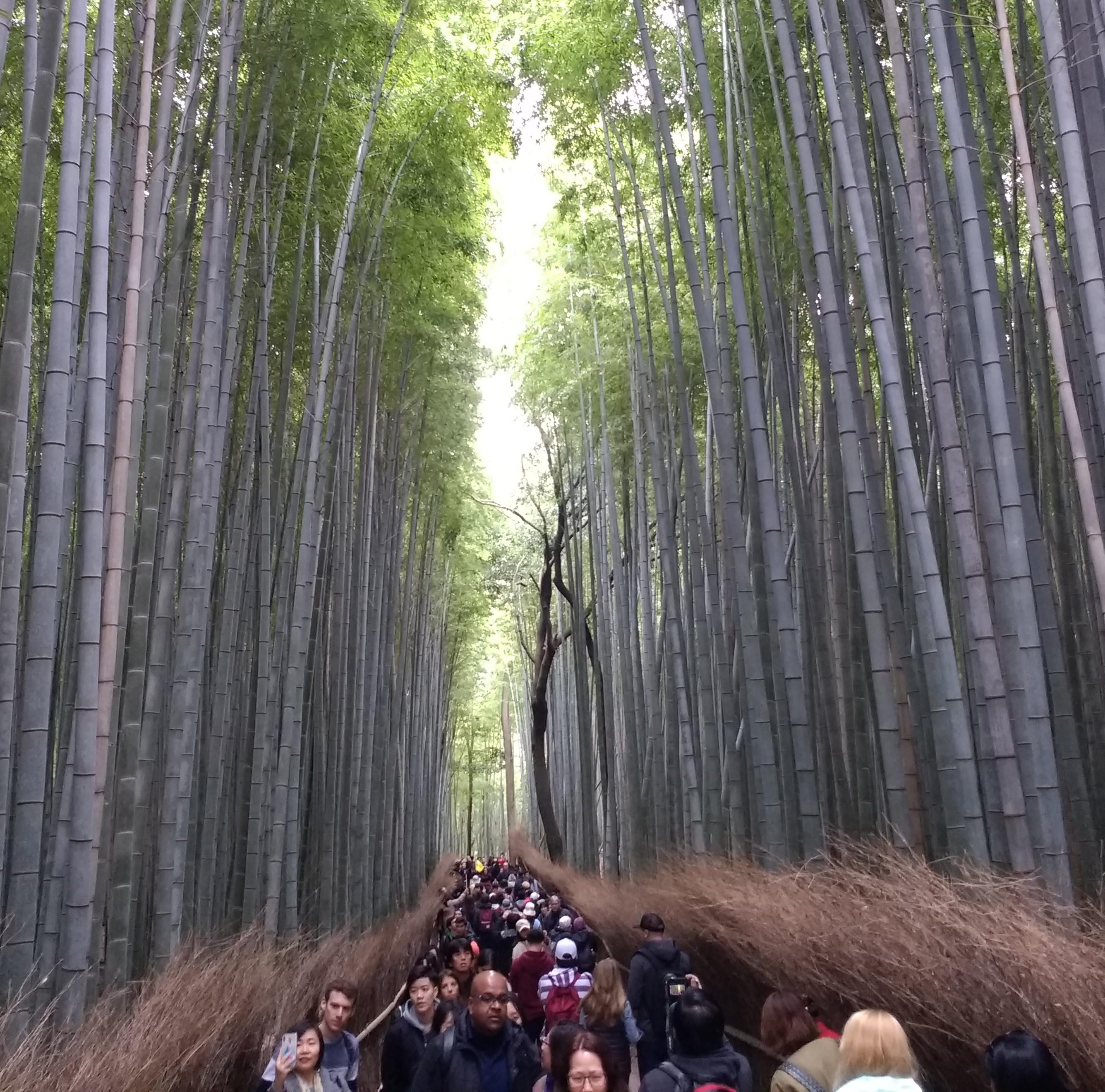 Crowds of tourists in the bamboo forest in Kyoto.